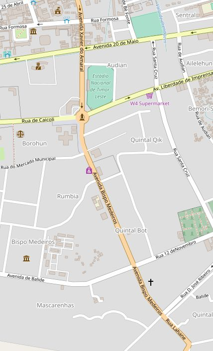 Template:DeS This map may be incomplete, and may contain errors. Don't rely solely on it for navigation.